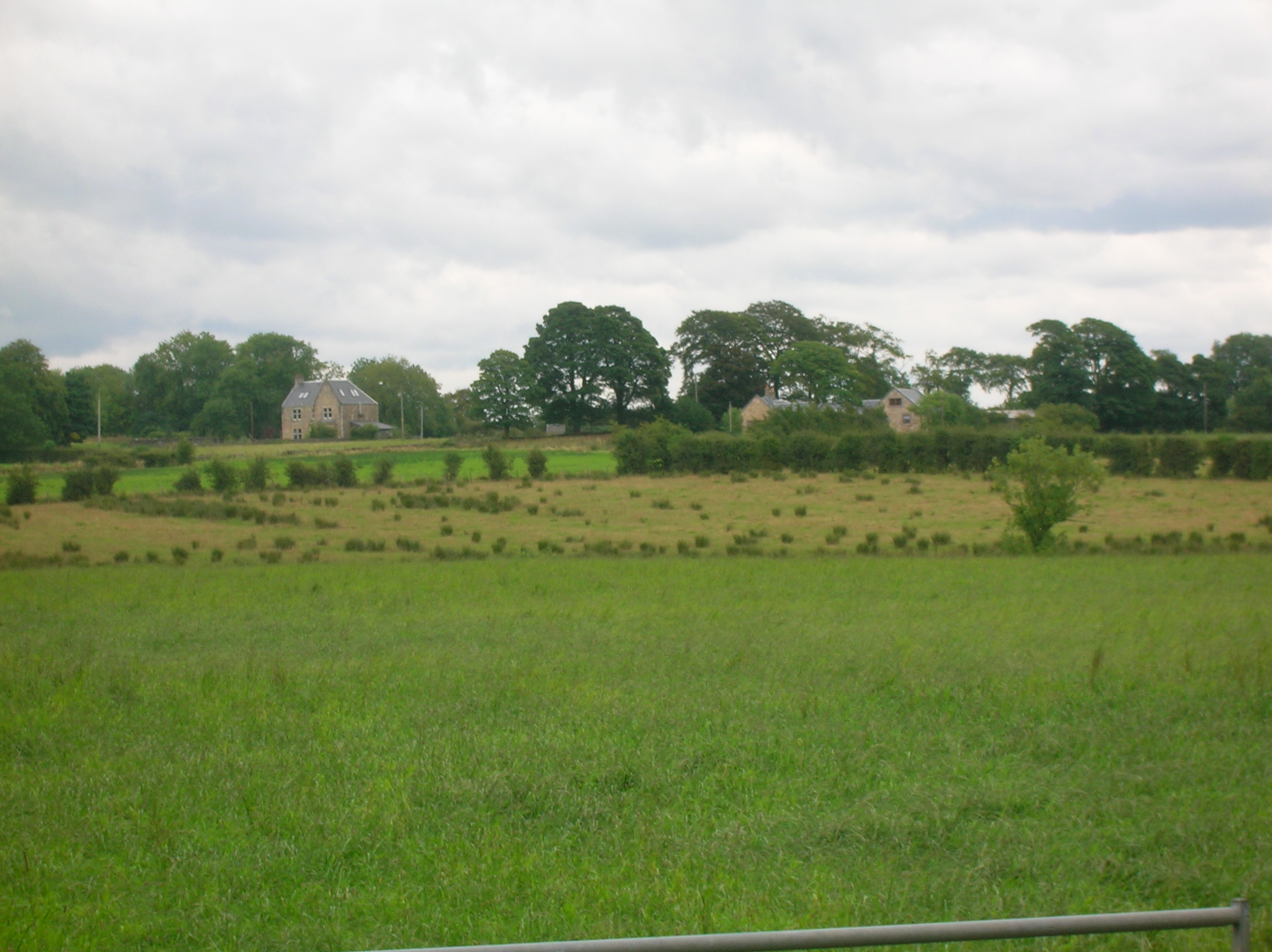 Dockra and South Border farms, North Ayrshire, Scotland.